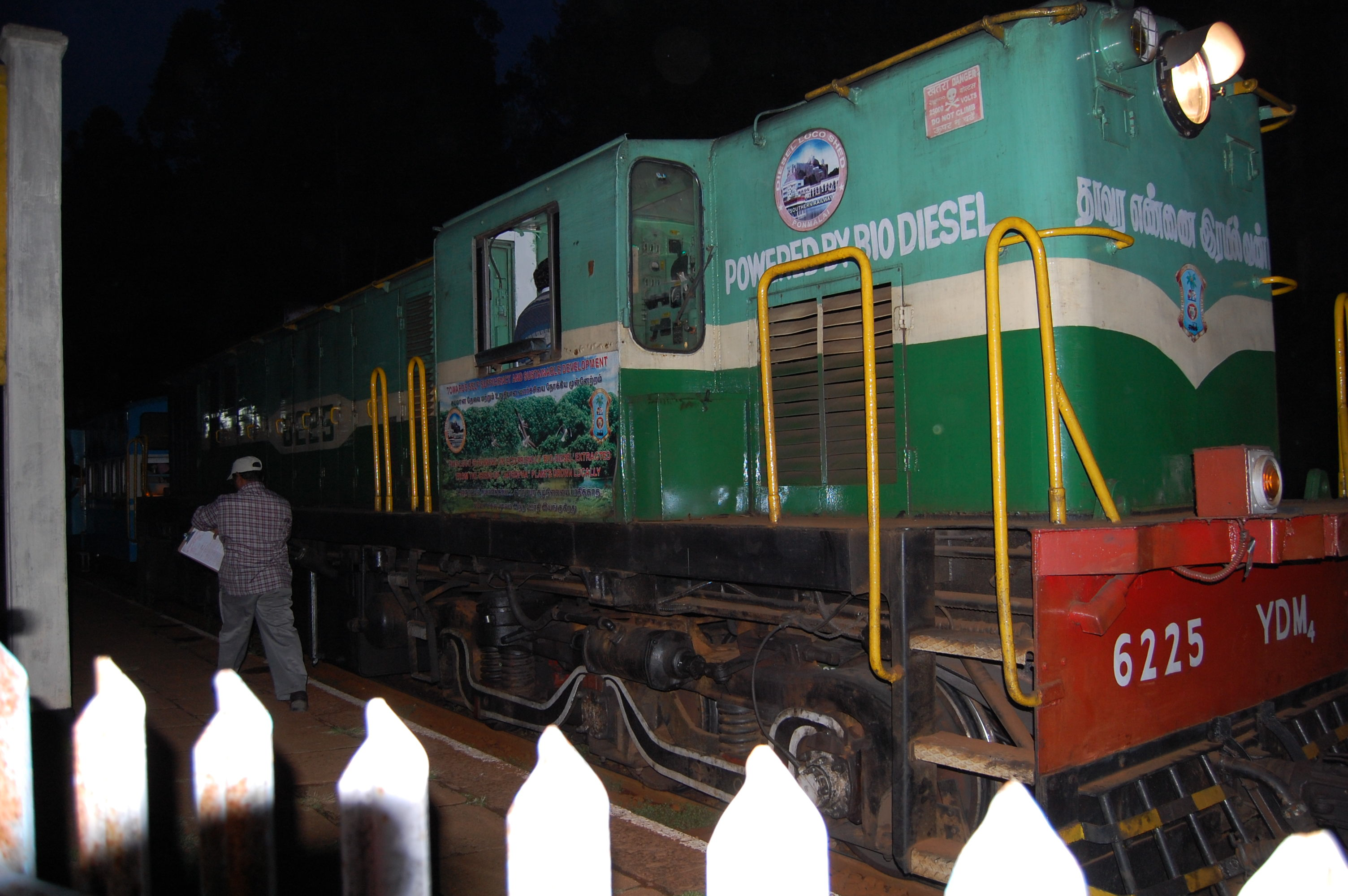 The YDM Diesel Locomotive Hauling the Nilgiri Mountain Train